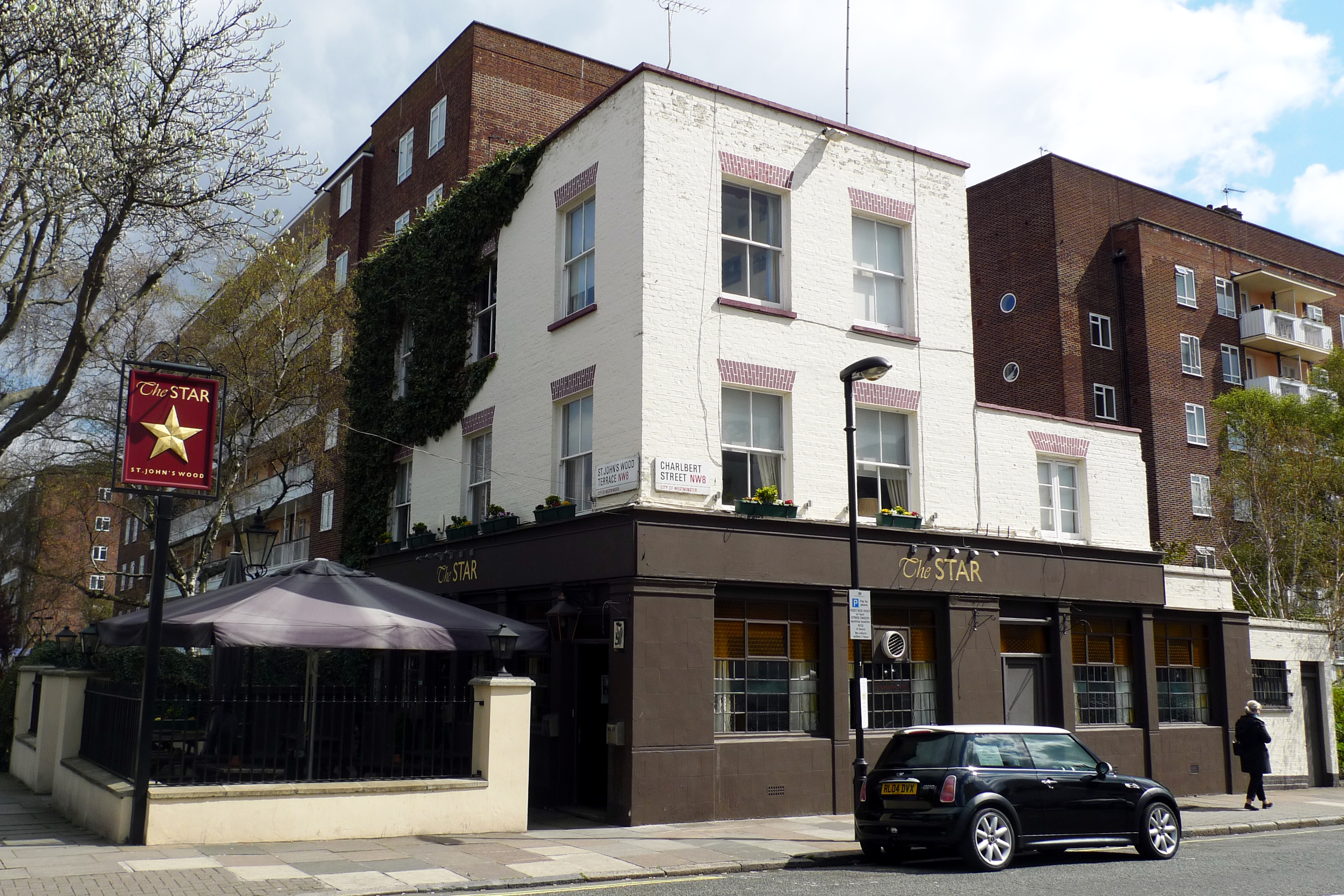 An attractive pub in an upmarket area. Address: 38 St Johns Wood Terrace. Owner: Charrington (former). Links: Randomness Guide to London Fancyapint Pubs Galore Beer in the Evening Dead Pubs (history)